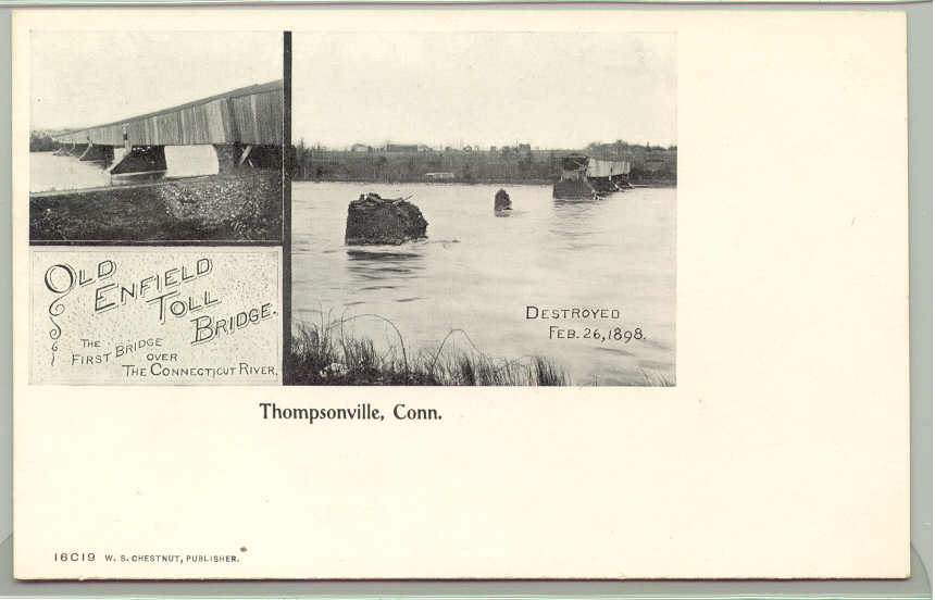 This postcard shows the Enfield Covered Bridge both before and after it was torn apart on 1900-02-14 by a flood. The postcard is labeled with "16C19 W. S. Chestnut, Publisher" and, for some reason, "Thompsonville, Conn.". The left image appears to be very close to the same photograph as Enfield Covered Bridge.jpg, and is labeled "Old Enfield Toll Bridge. The first bridge over the Connecticut River." The right image of the half-missing bridge is labeled "Destroyed Feb. 26, 1898."